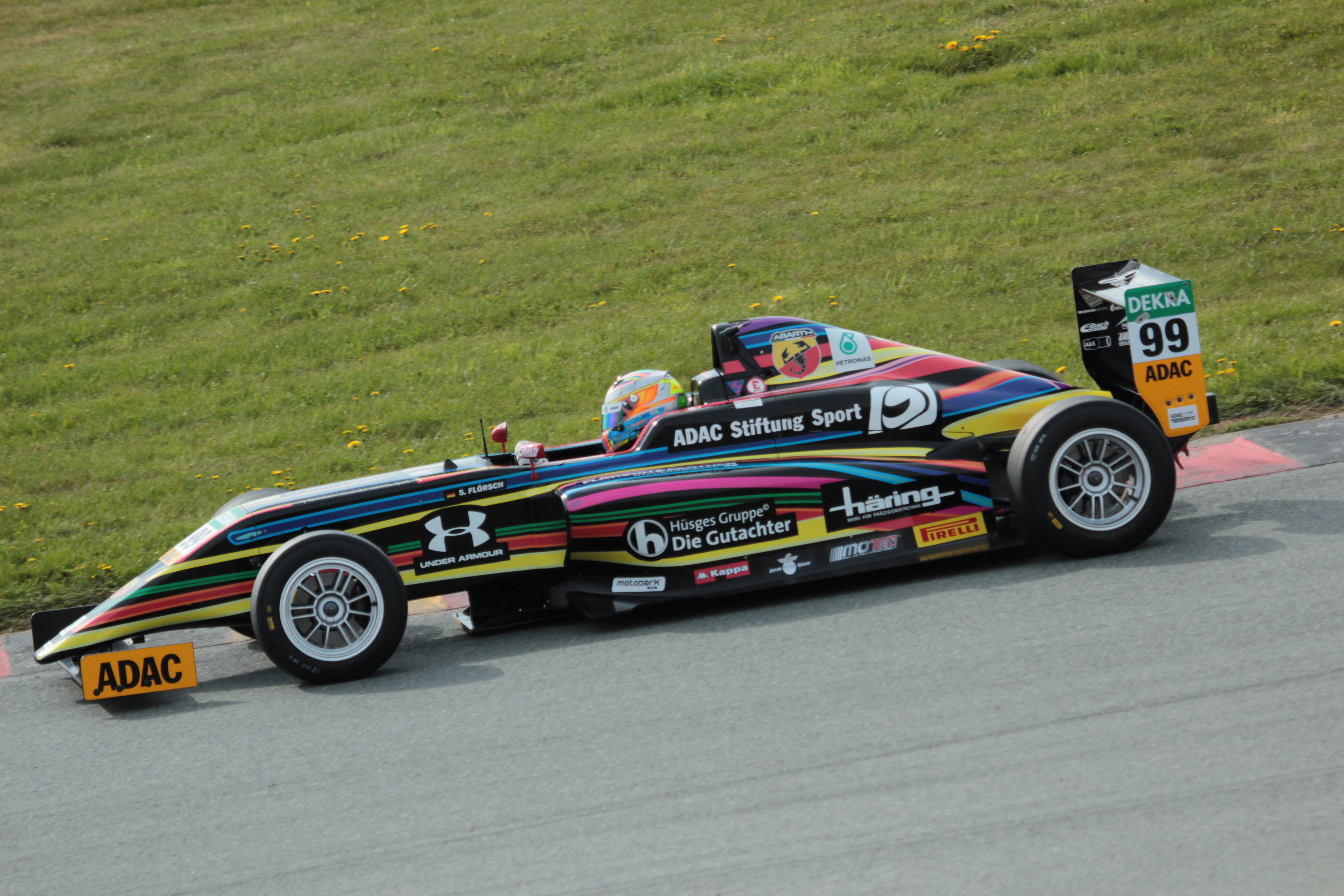 Sophia Flörsch at the Sachsenring in 2016, German Formula 4 Championship